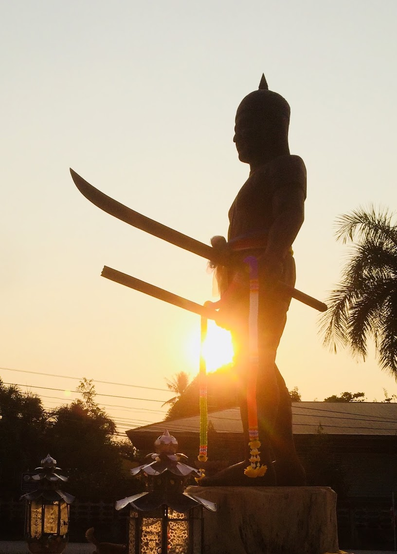 Phraya Phichai Dap Hak carved from The Three-hundred-year-old Hopea odorata wood (Old wood discovered at the bottom of Nan River on 2015 and Carved in 2017) Enshrined in front of Wat Kungtapao), Uttaradit Province, Thailand.